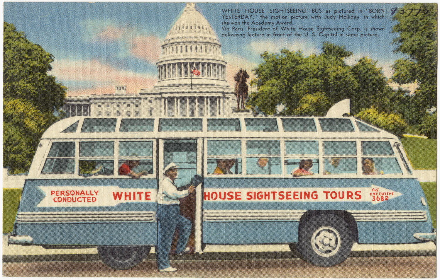 File name: 06_10_022085 Title: White House Sightseeing Tours Created/Published: Pub. by Mellinger Studios, Lancaster, Penna. Date issued: 1930 - 1945 (approximate) Physical description: 1 print (postcard) : linen texture, color ; 3 1/2 x 5 1/2 in. Genre: Postcards Notes: Title from item. Collection: The Tichnor Brothers Collection Location: Boston Public Library, Print Department Rights: No known restrictions